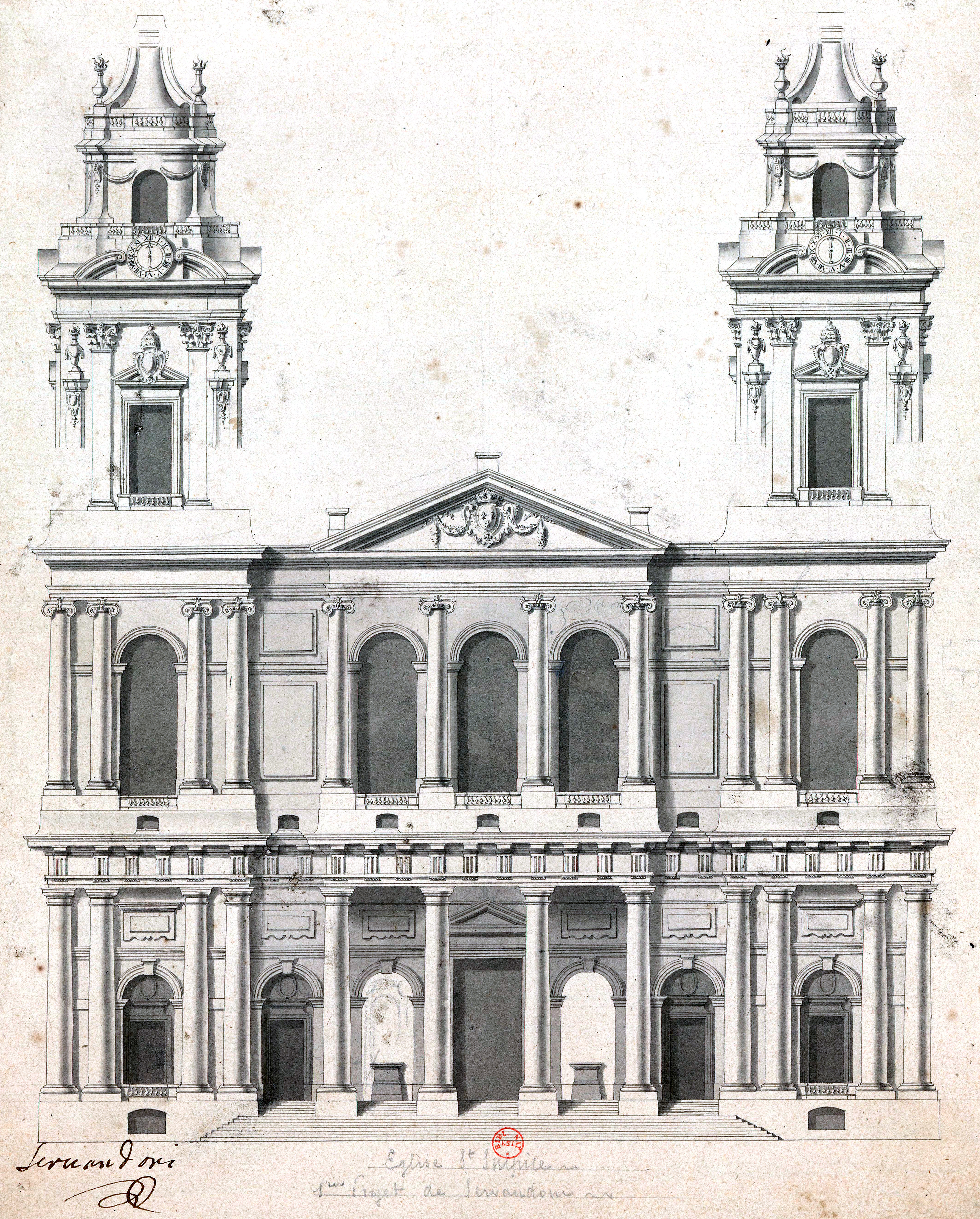 Giovanni Niccolò Servandoni's first project for the principal (west) facade of the Church of Saint-Sulpice in Paris